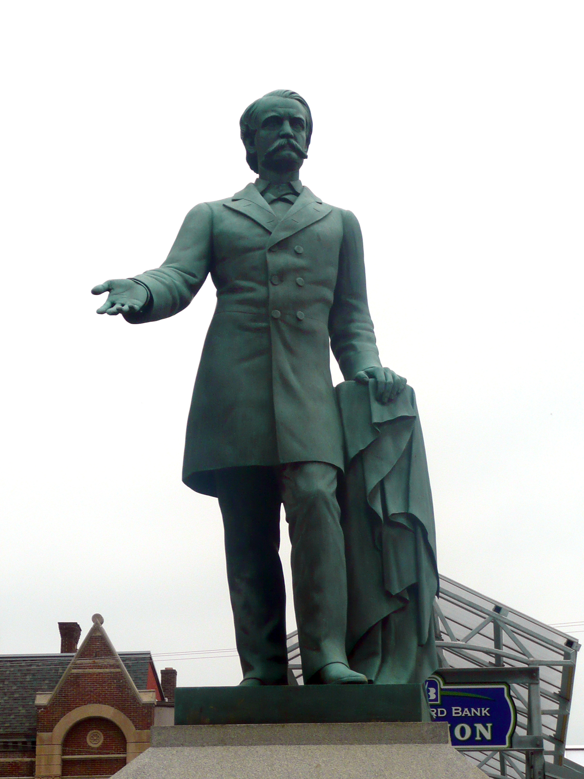 Photograph of the John C. Breckinridge Memorial in Lexington, Kentucky. The statue was erected by the state of Kentucky in 1887.[1]